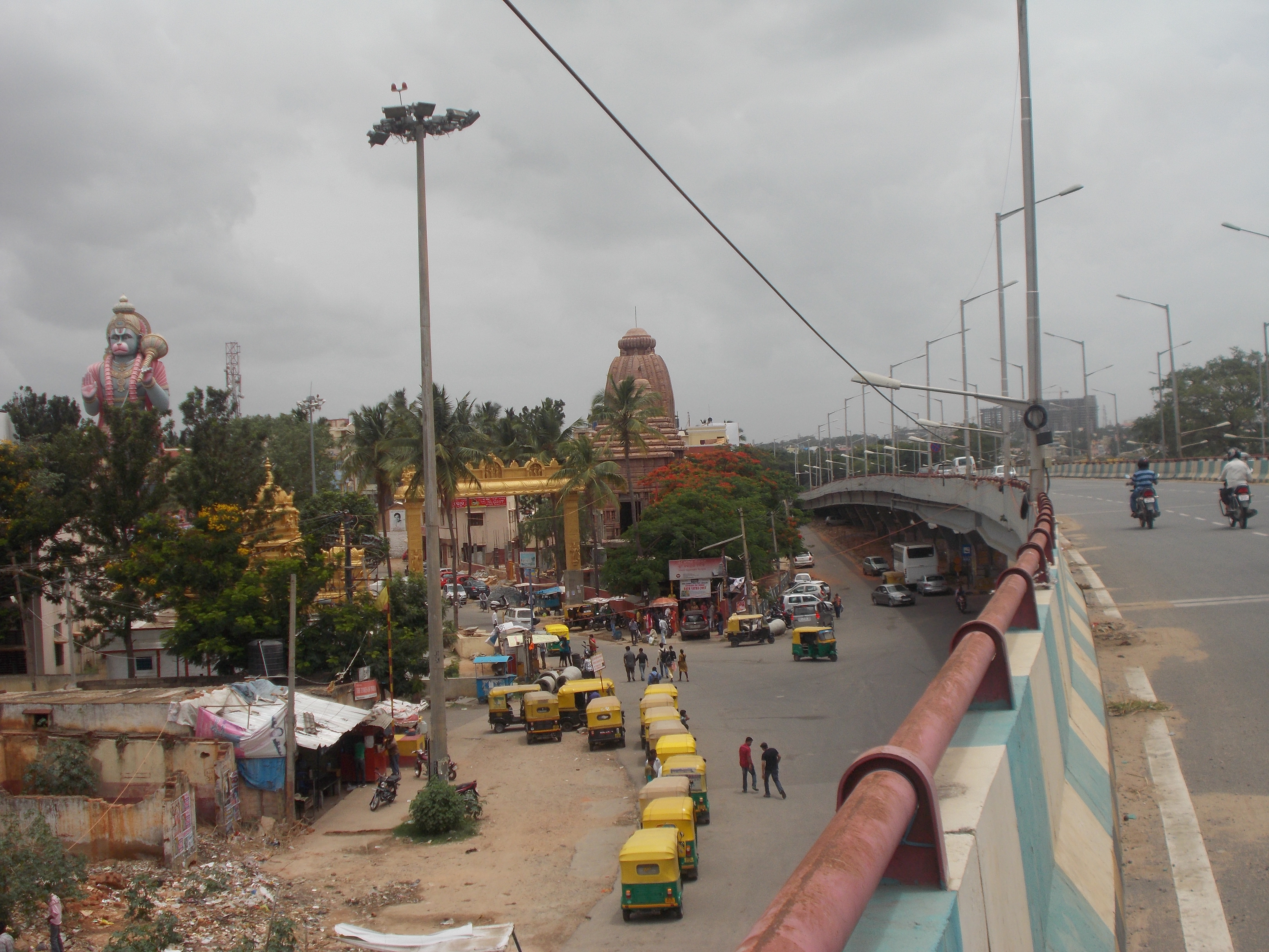 Lord Hanuman's idol beside Puri Jagannath's temple at Agara, Bangalore.